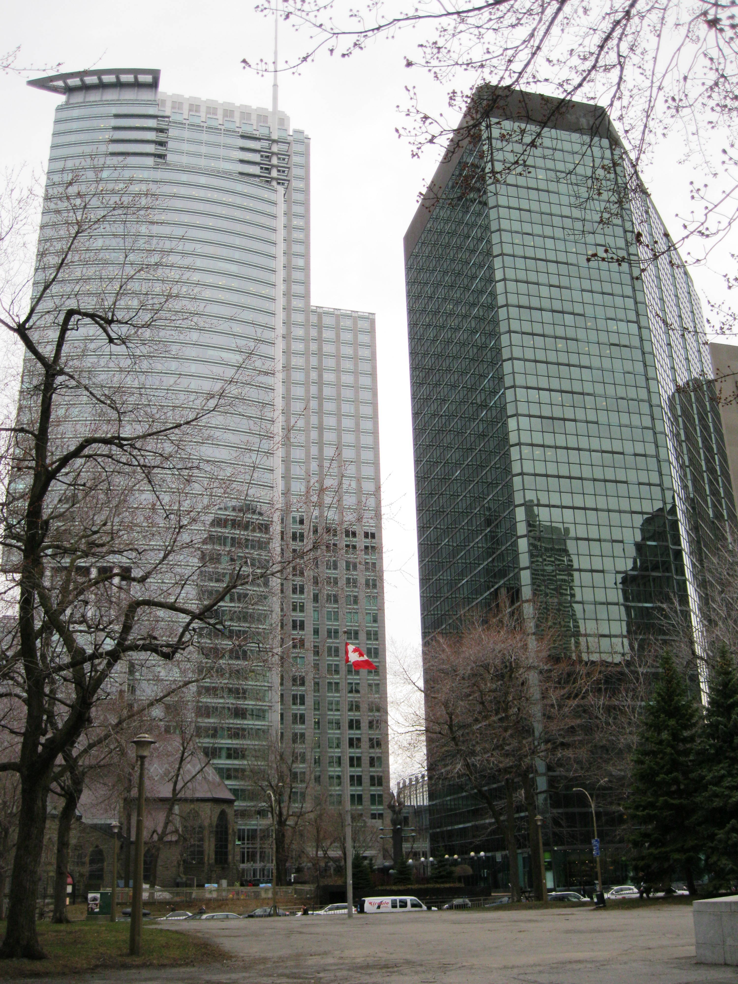 Right : La Laurentienne Building, 1100 René Lévesque Boulevard West, Montreal Images Montreal